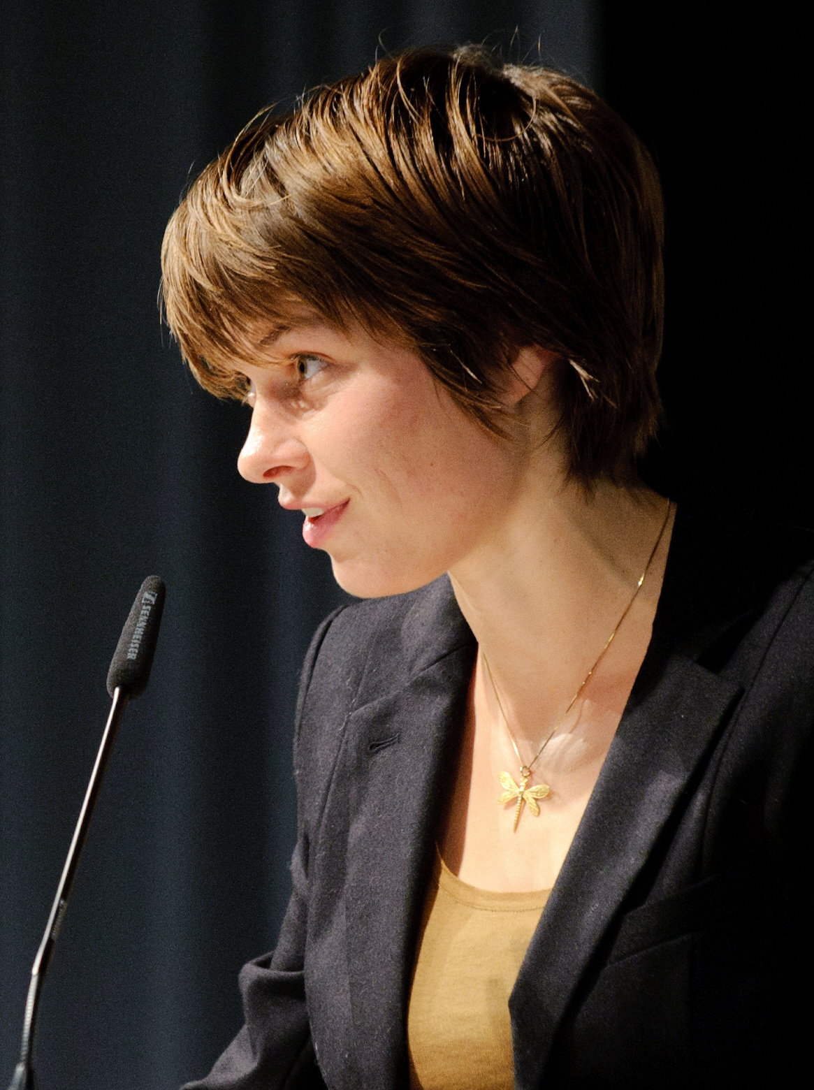 Foto: Stephan Röhl